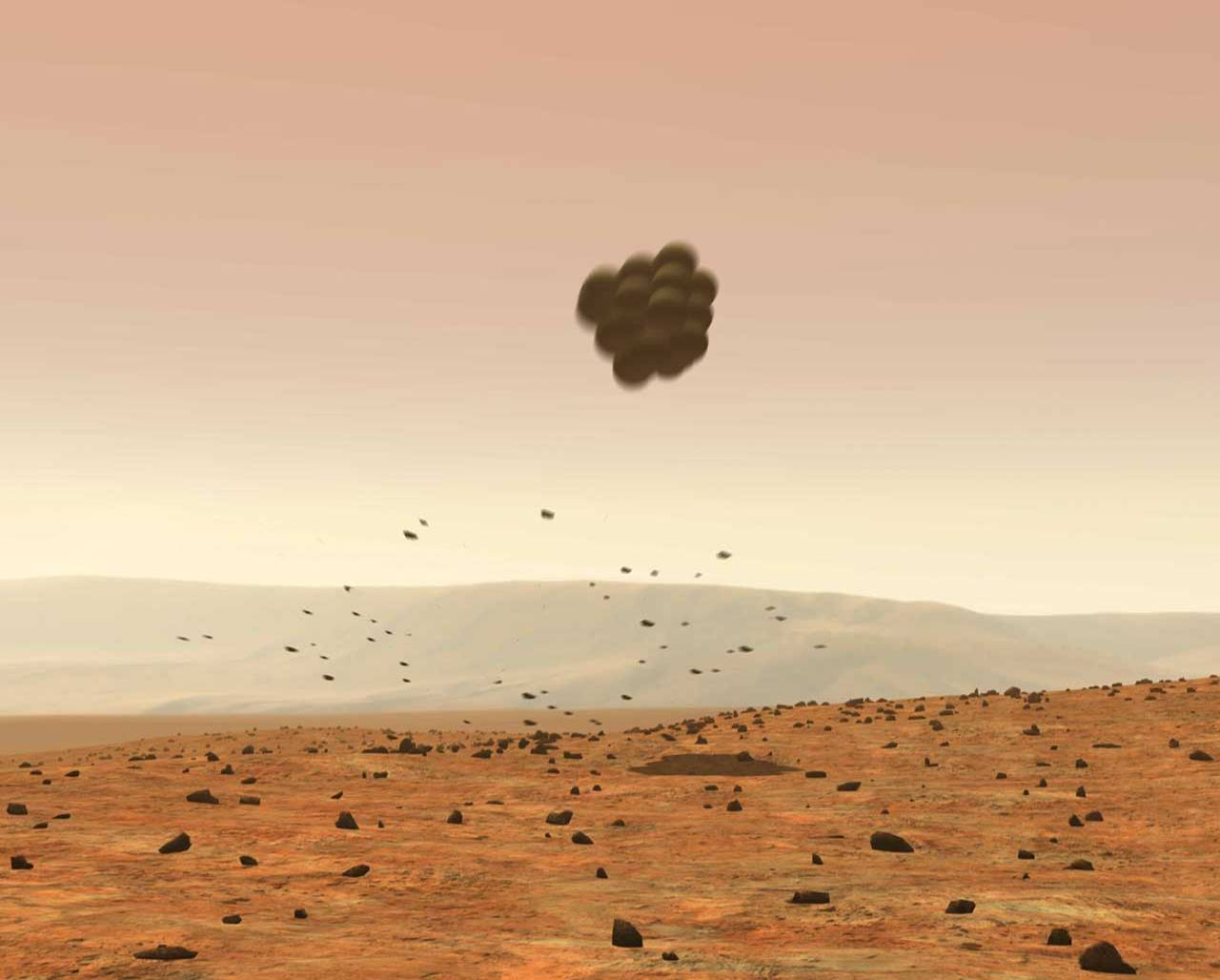 Artist's concept of inflated airbags, used by Mars Exploration Rover.